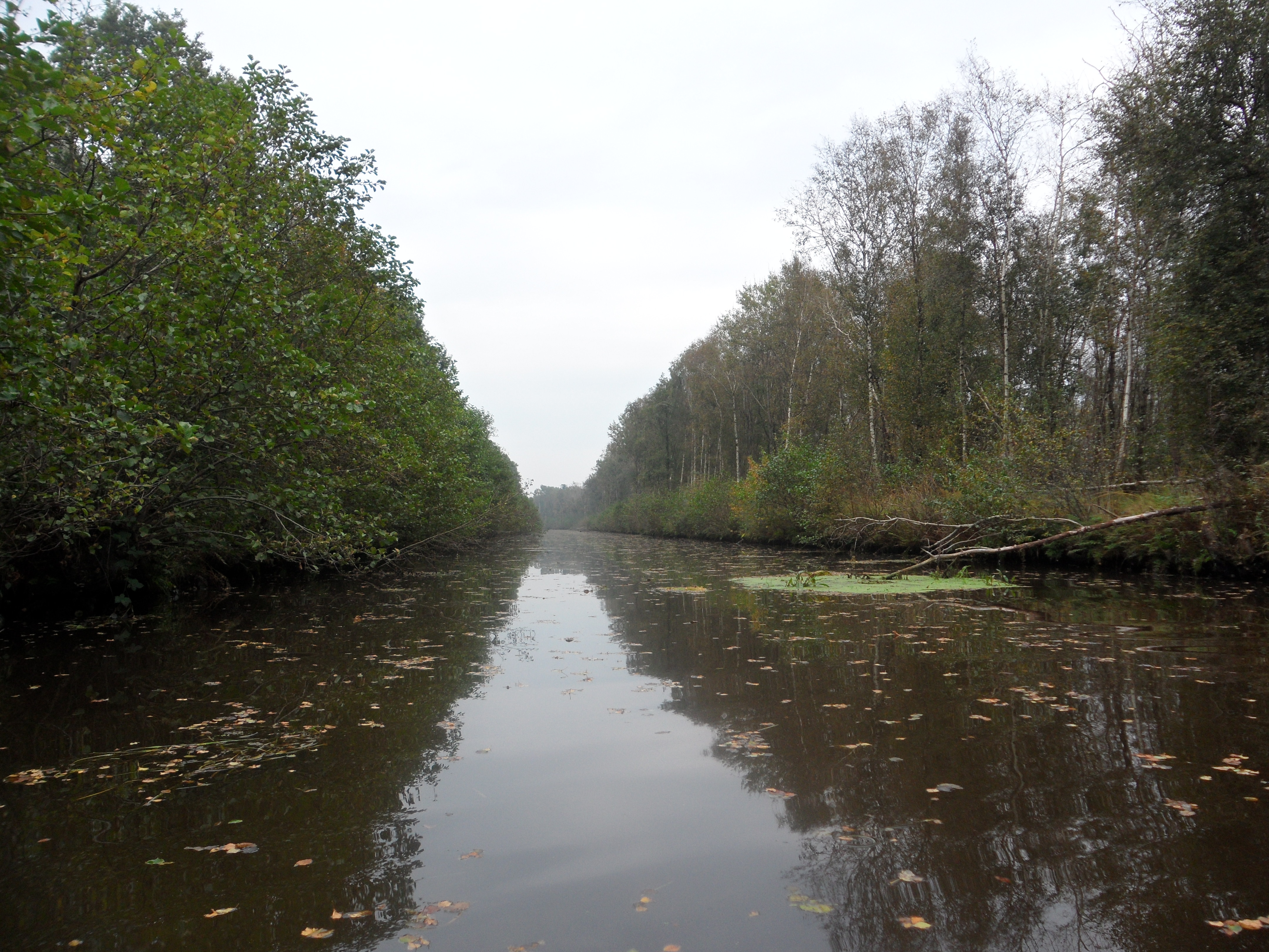 The Breitenburger Kanal close to the Kreidegrube Saturn